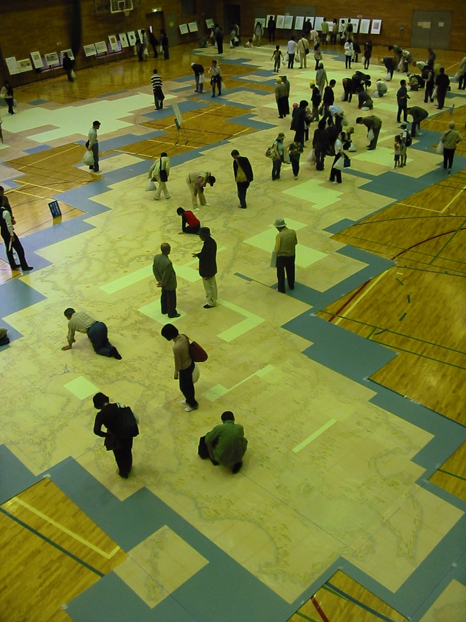 All sheets of Dai Nihon Enkai Yochi Zenzu (大日本沿海輿地全図; maps of Japan's coastal area) (replica)